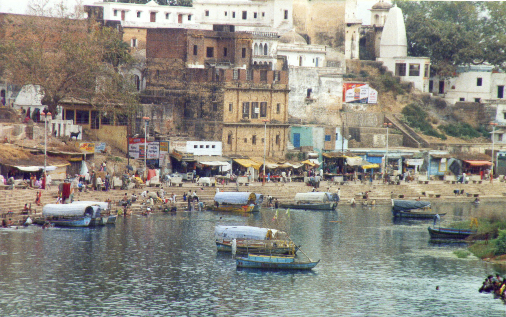 Chitrakoot was the home of India'a epic heros RAMA and SITA. They lived here for 11 of the 14 years of their exile. Here is a view of Ramghat Attribution: vaticanus File: C4636Vol2p76